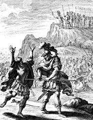 Woodcut of the story from 2 Samuel 2